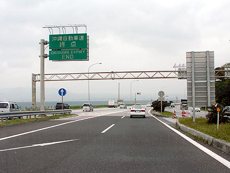 Kyoda Interchange